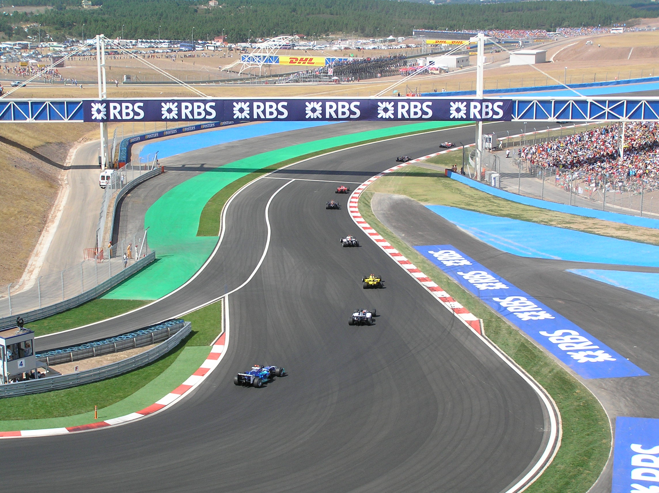 Istanbul Park, first corner, 2005 Turkish Grand Prix